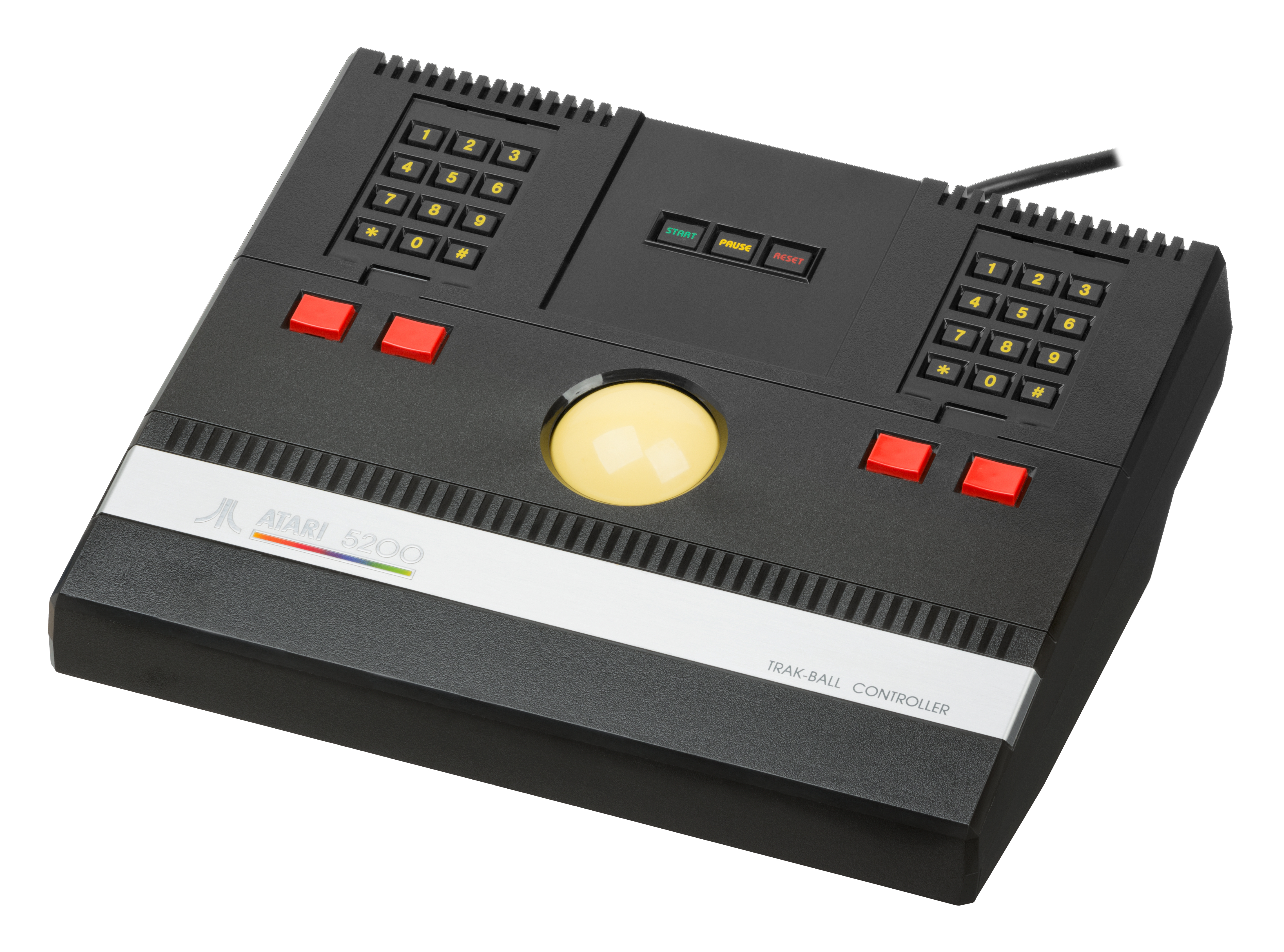 The Trak Ball controller for the Atari 5200 video game console. This official controller was sold separately and offered trackball control for movement instead of a joystick.